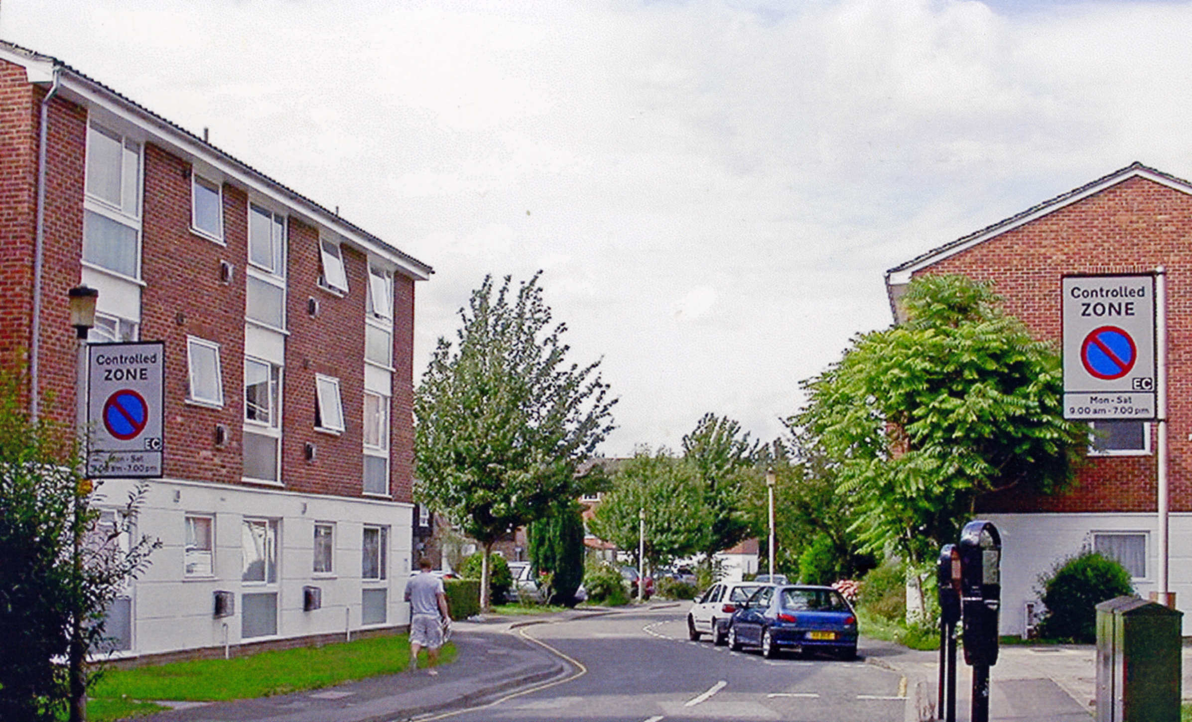 Site of Hammersmith & Chiswick station, 2005. View northward of Ravensmede Way, London W4, from King Street, towards South Acton. This was where the North & South-West London branch of the ex-North London/LNWR from South Acton terminated. Although closed to passengers from 1/1/17, the branch survived for goods until 2/5/65.